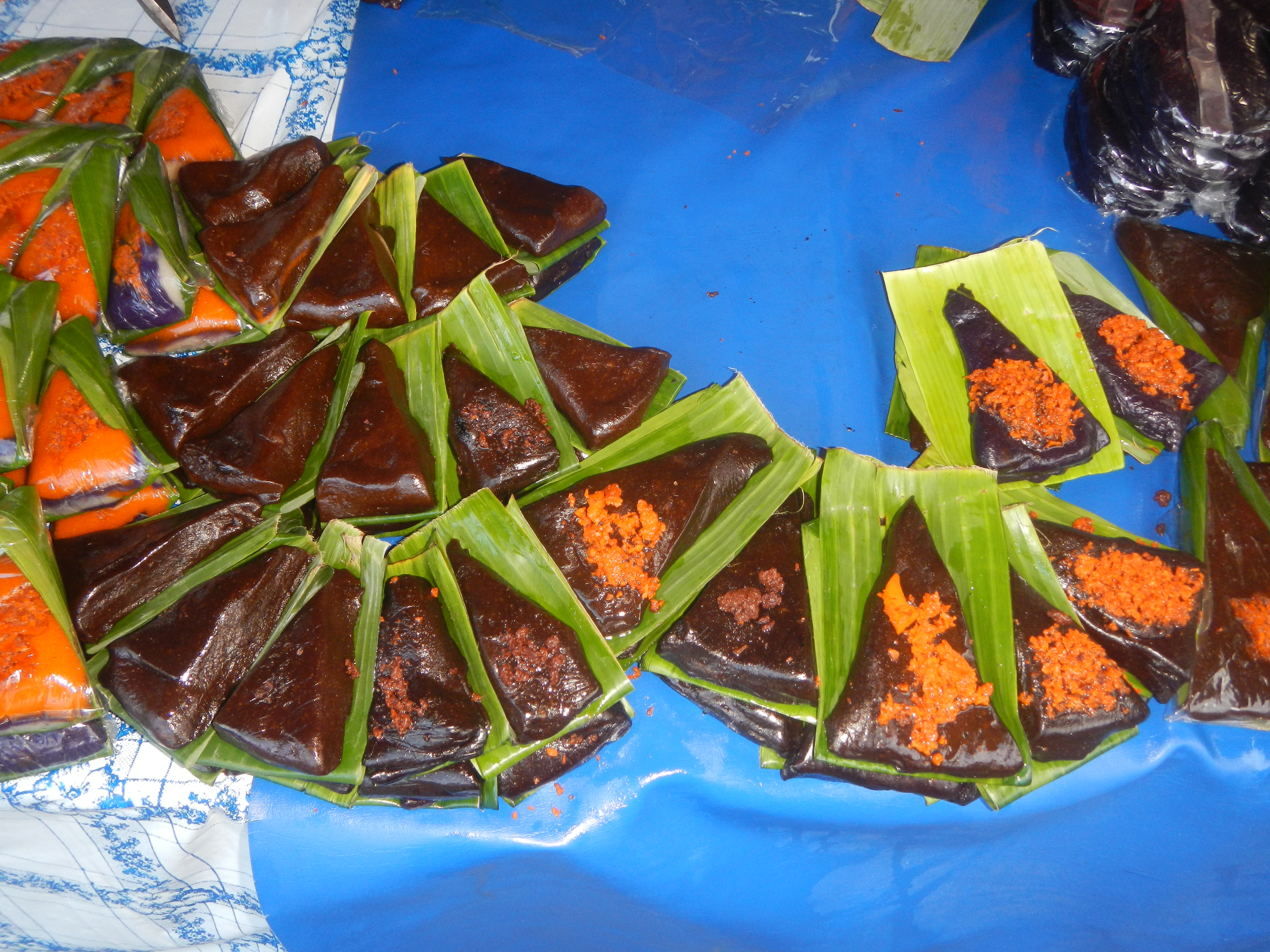 Pasalubong (Pistang Bayan 1917-2017 Sentenaryo, Bustos, Bulacan - Philippine delicacies) in Beltran street corner Hilario Street Barangay Poblacion 14°57'20"N 120°54'34"E, Bustos, Bulacan (Note: Judge Florentino Floro, the owner, to repeat, Donor Florentino Floro of all these photos hereby donate gratuitously, freely and unconditionally all these photos to and for Wikimedia Commons, exclusively, for public use of the public domain, and again without any condition whatsoever).